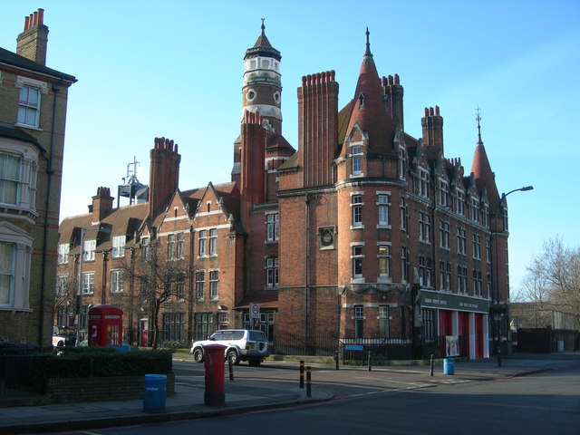 New Cross Fire Station On the corner of Waller Road and Queen's Road.